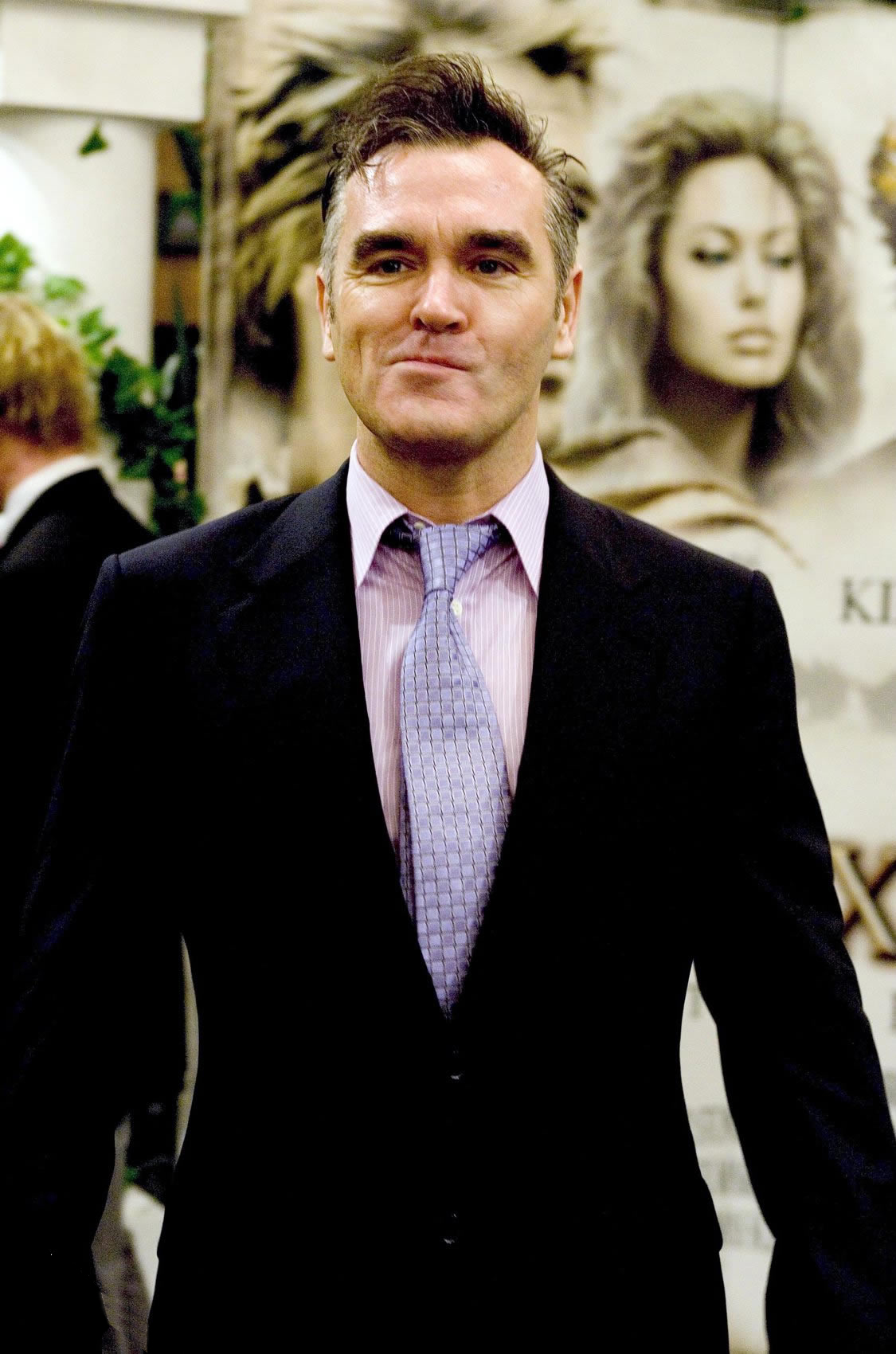 Morrissey at the premiere of the Alexander film in Dublin Ireland.